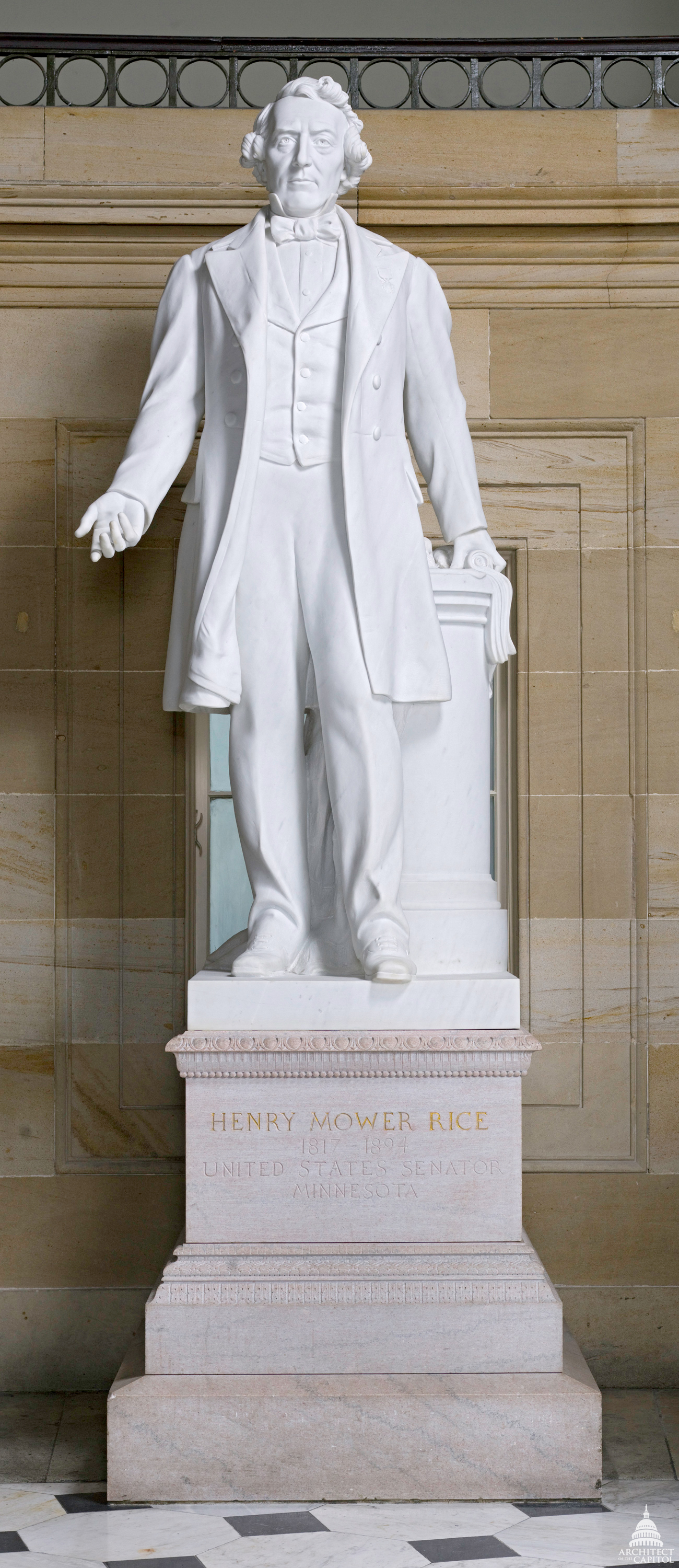 Henry Mower Rice (1817-1894) Minnesota Marble by Frederick E. Triebel Given in 1916 National Statuary Hall U.S. Capitol